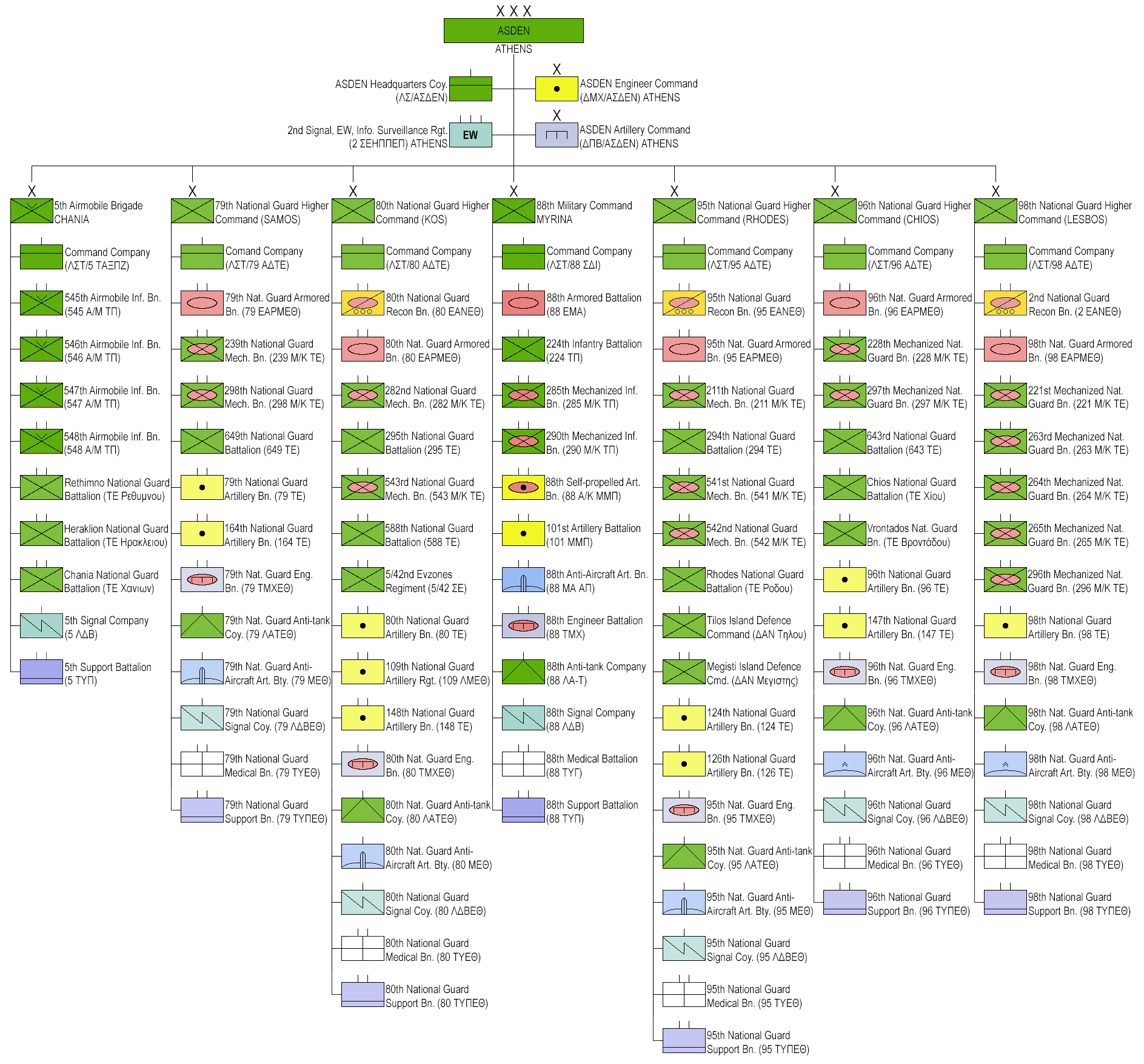 Hellenic Army Supreme Military Command of the Interior and Islands Structure